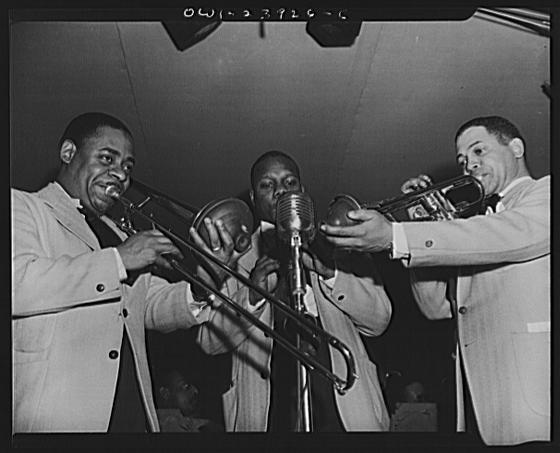 A trio of musicians from Duke Ellington's orchestra during the early morning broadcast